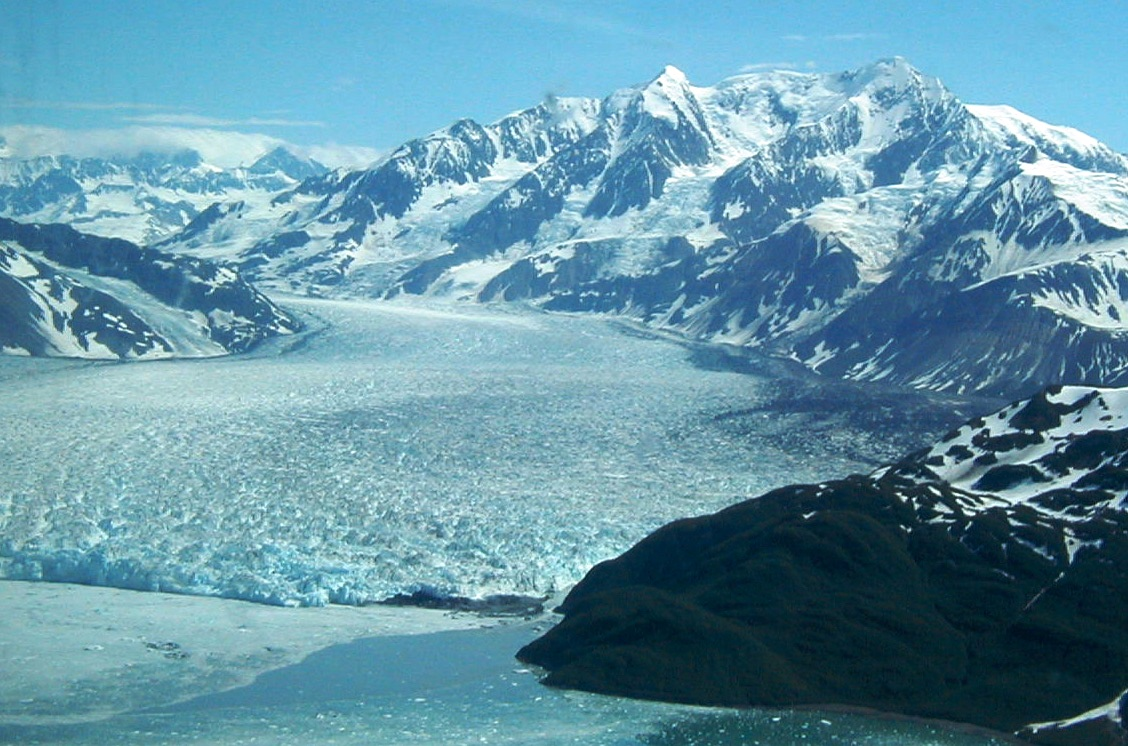 Learn more about glaciers and glacier research in Alaska's national parks at NPS Photo